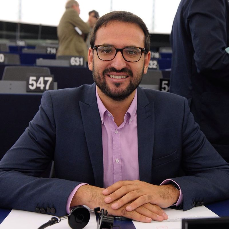 Member of the European Parliament for the Socialists and Democrats